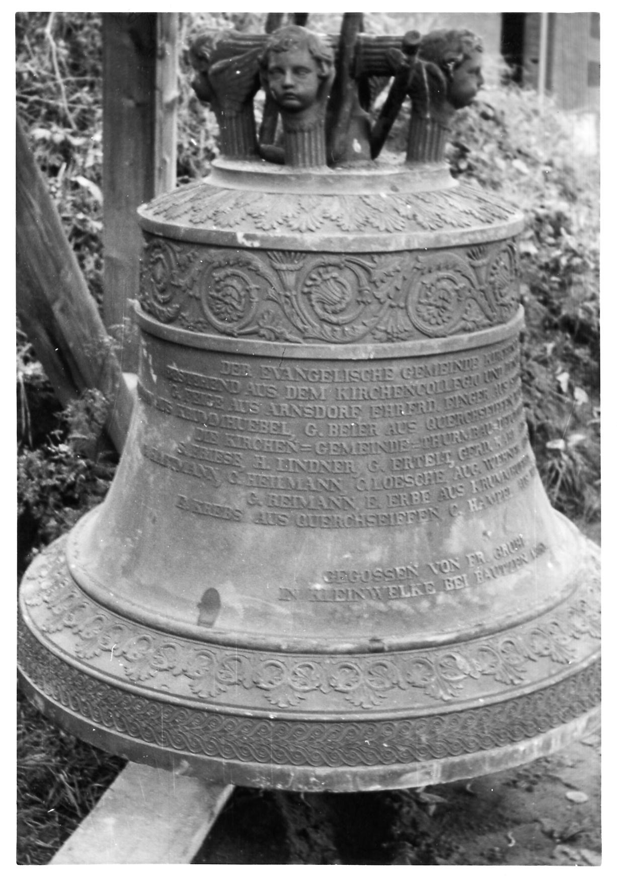 Church bell of the Vicelin-Church in Hamburg-Sasel, made in 1863, until WW2 used in the church in Arnsdorf (Silesia)